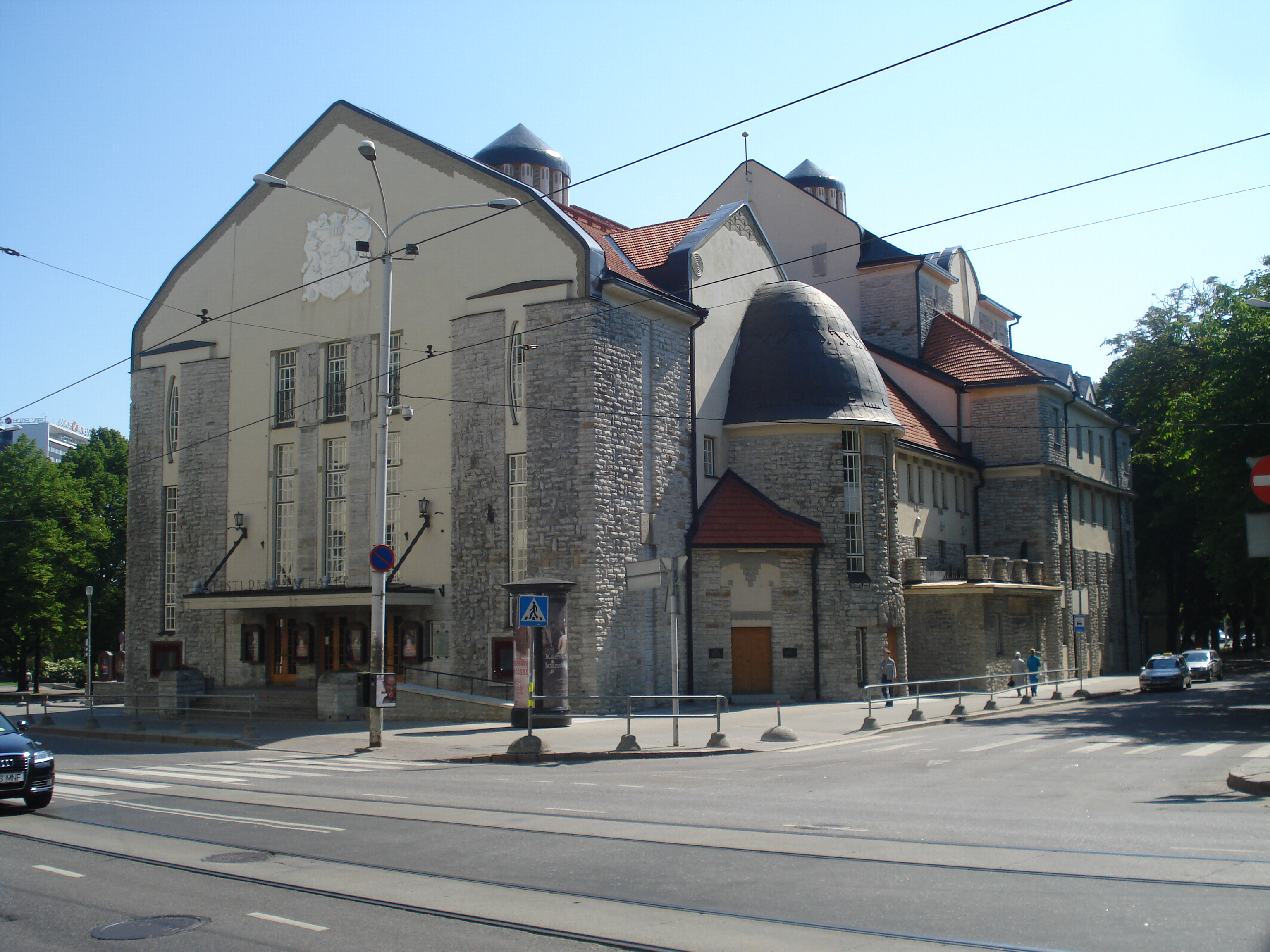 Estonian Drama Theatre in Tallinn. Pärnu mnt 5